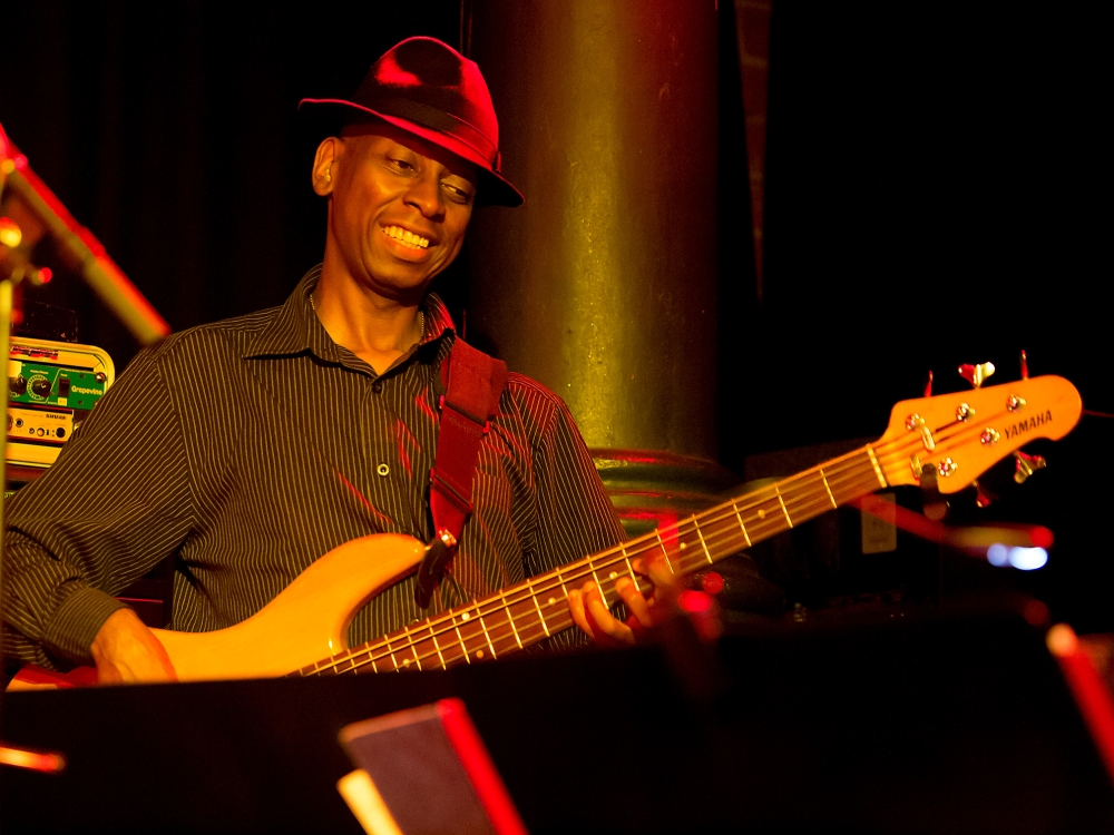 Michael Mondesir, Jazz bassist; Picture taken in Jazz Club Unterfahrt, Munich/Bavaria